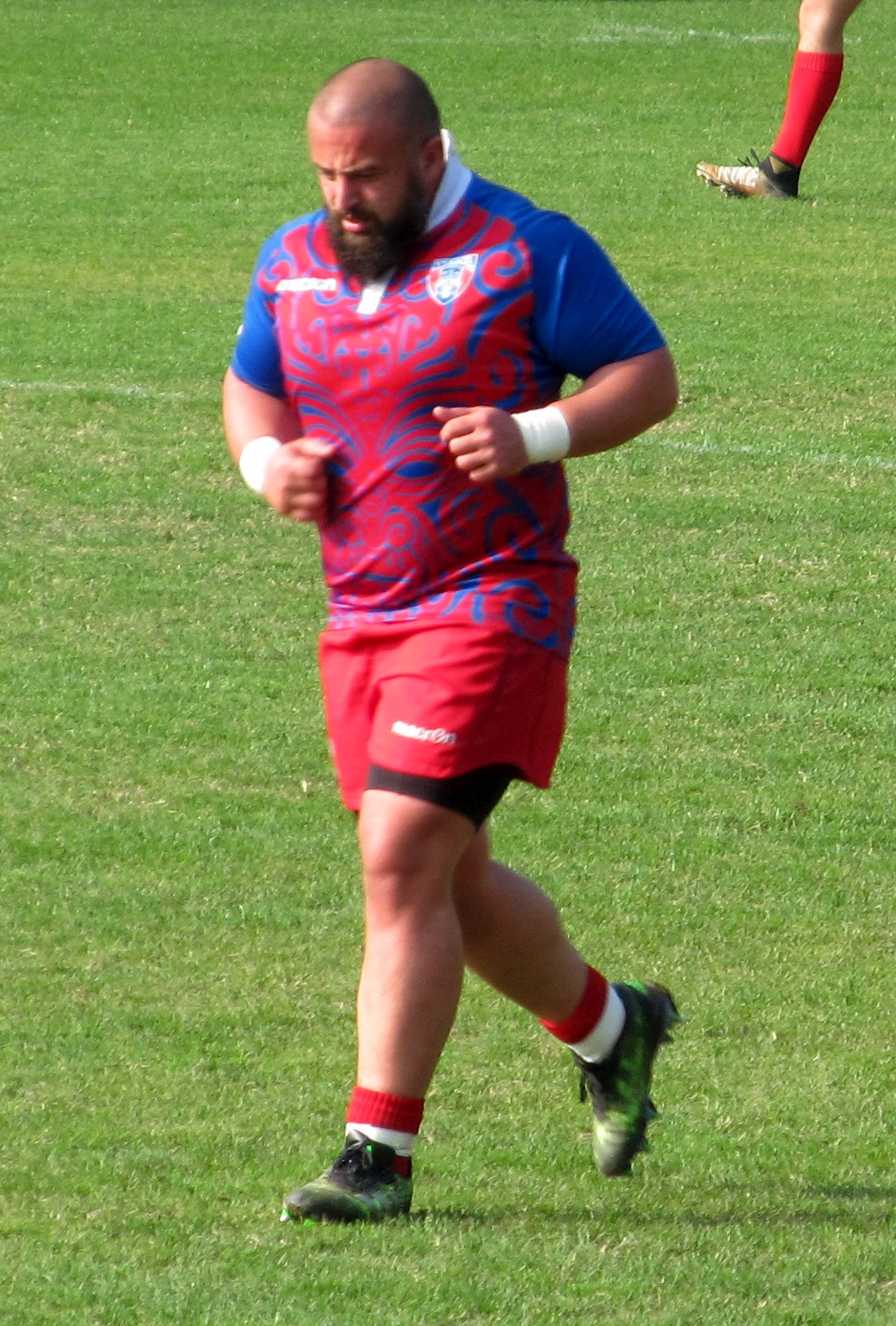 Georgian rugby union football player Nika Pataraia, player of CSA Steaua București rugby club seen playing during a match against CSM Baia Mare in Round 9 of Romanian Rugby Superliga 2019–20 season in October 2019